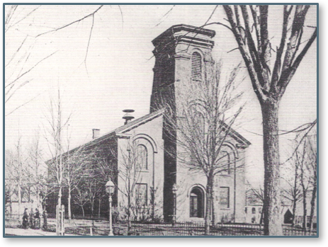 By 1856, the church membership’s growth dictated the necessity for a larger building. The new building was built in back of the old one.